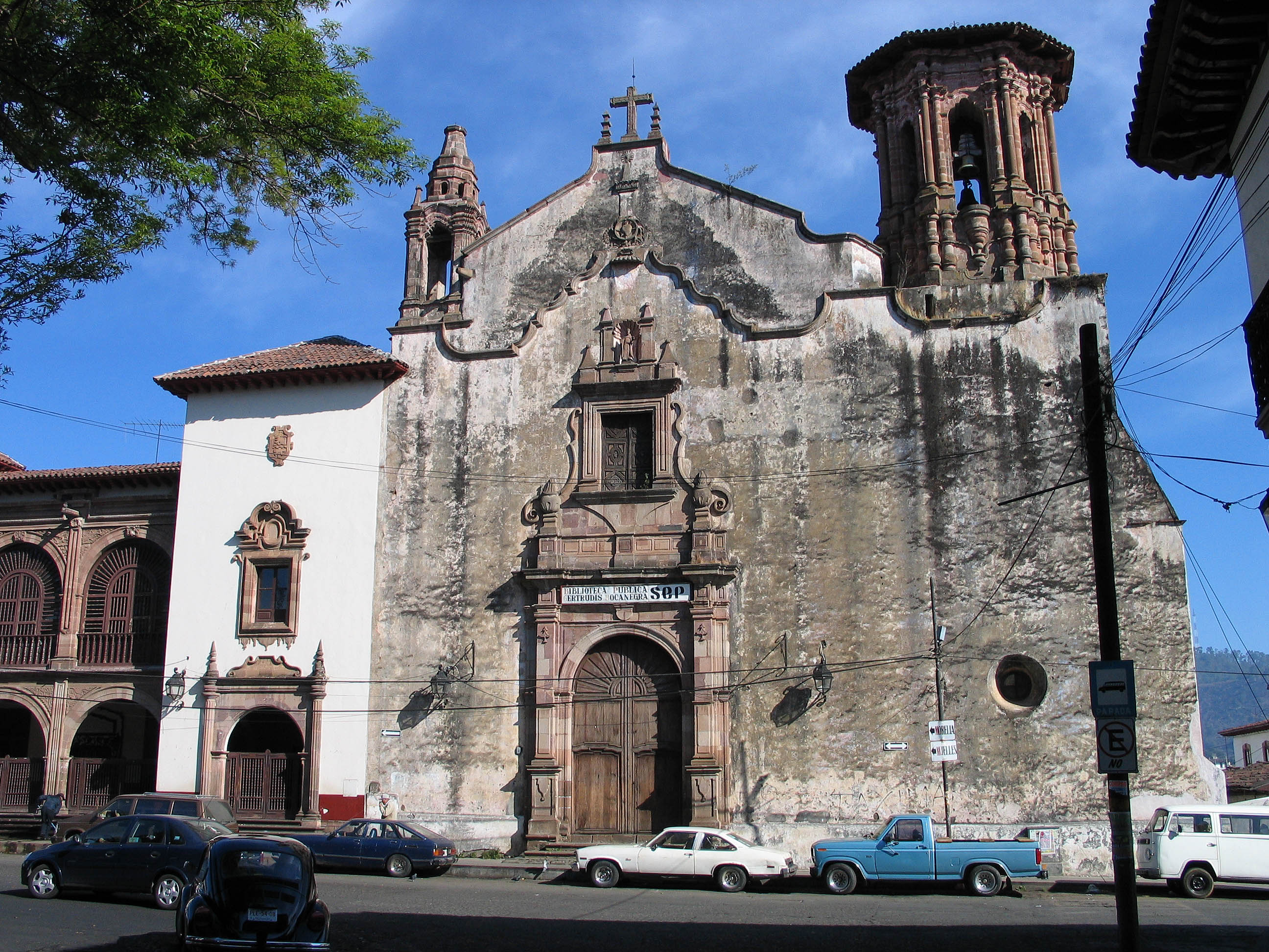 Ex monastery of San Agustin in Pátzcuaro, Michoacán, Mexico